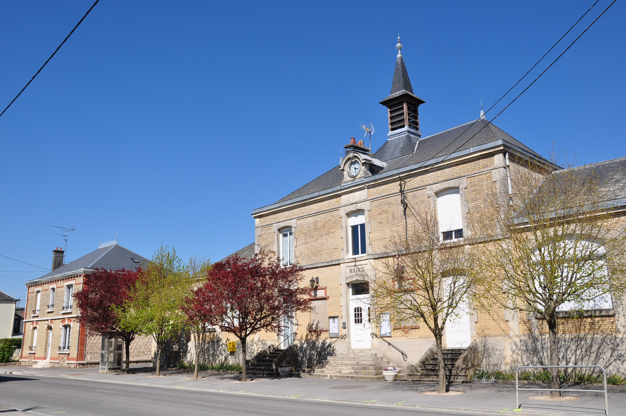 Town Hall of Saint-Hilaire-le-Petit (Marne department, Champagne-Ardenne region, France).